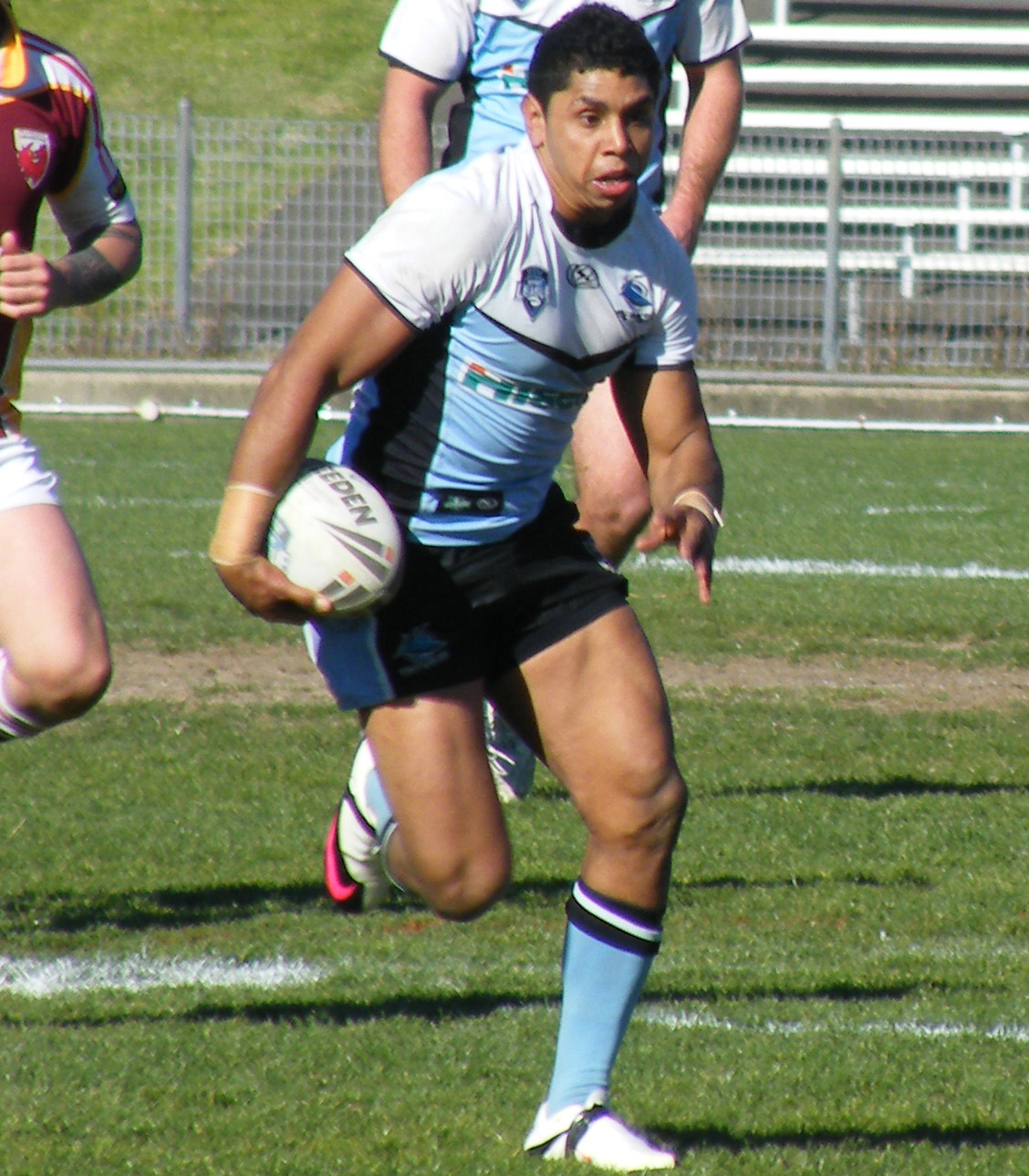 Albert Kelly of the Cronulla Sharks